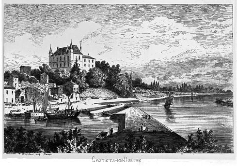 Castle of Castets-en-Dorthe (Gironde, France)